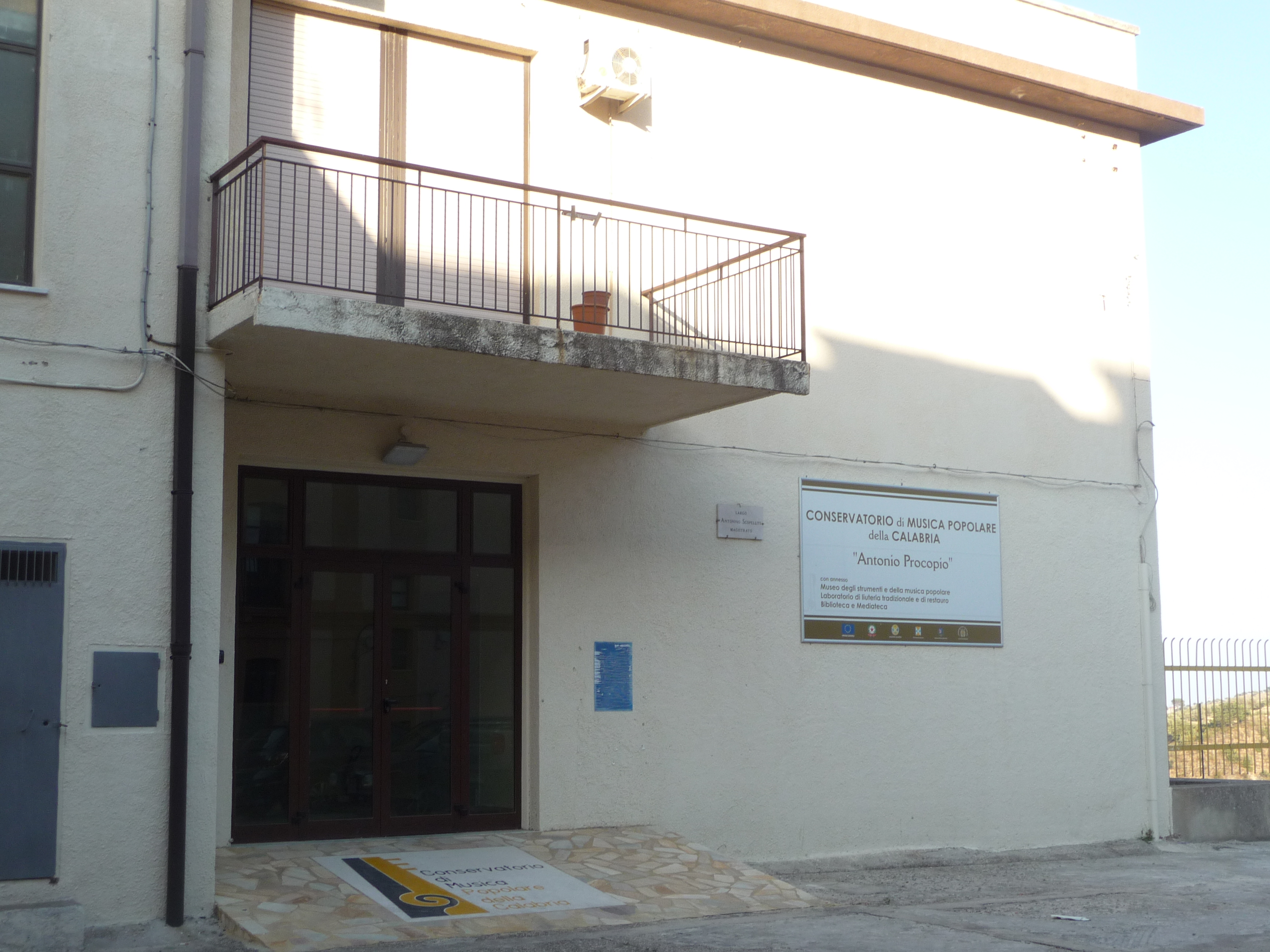 Museum of folk music of Calabria (Isca sullo Ionio - Italy)